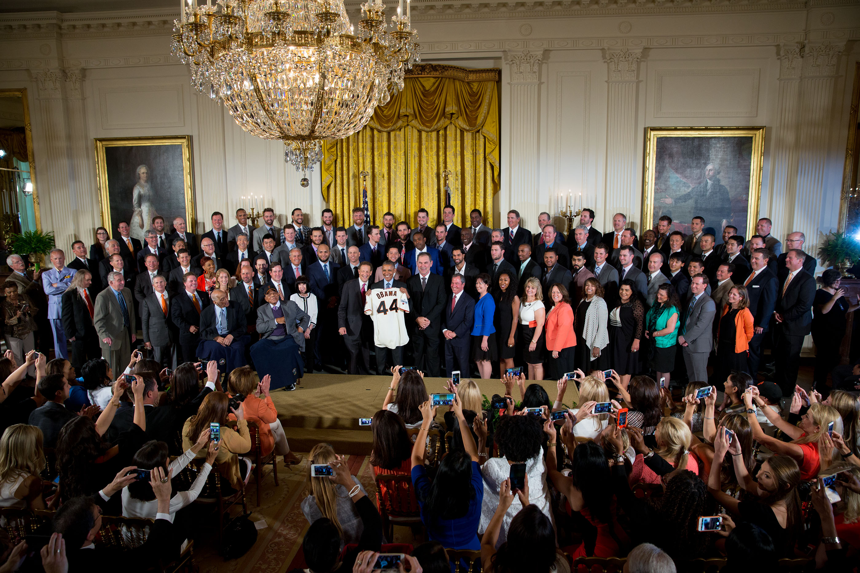 President Barack Obama joins the Giants team for a group photo during an event to welcome the World Series Champion San Francisco Giants to the White House to honor the team and their 2014 World Series victory, in the East Room, June 4, 2015. (Official White House Photo by Lawrence Jackson)